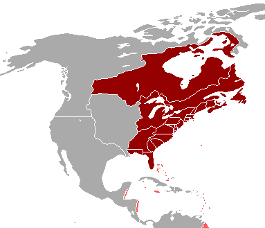 British America at its greatest territorial expance from 1763 with its acquisitions from the fall of New France to 1783 with the British defeat in the American Revolution and creation of the United States, (in dark red). (Other British colonies held at that time are labeled in pink.)